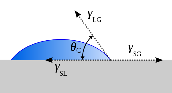 Waterdruppel op een oppervlak omringd door gas. De contacthoek, θ, is de hoek gevormd door de vloeistof in het driefasig gebied.